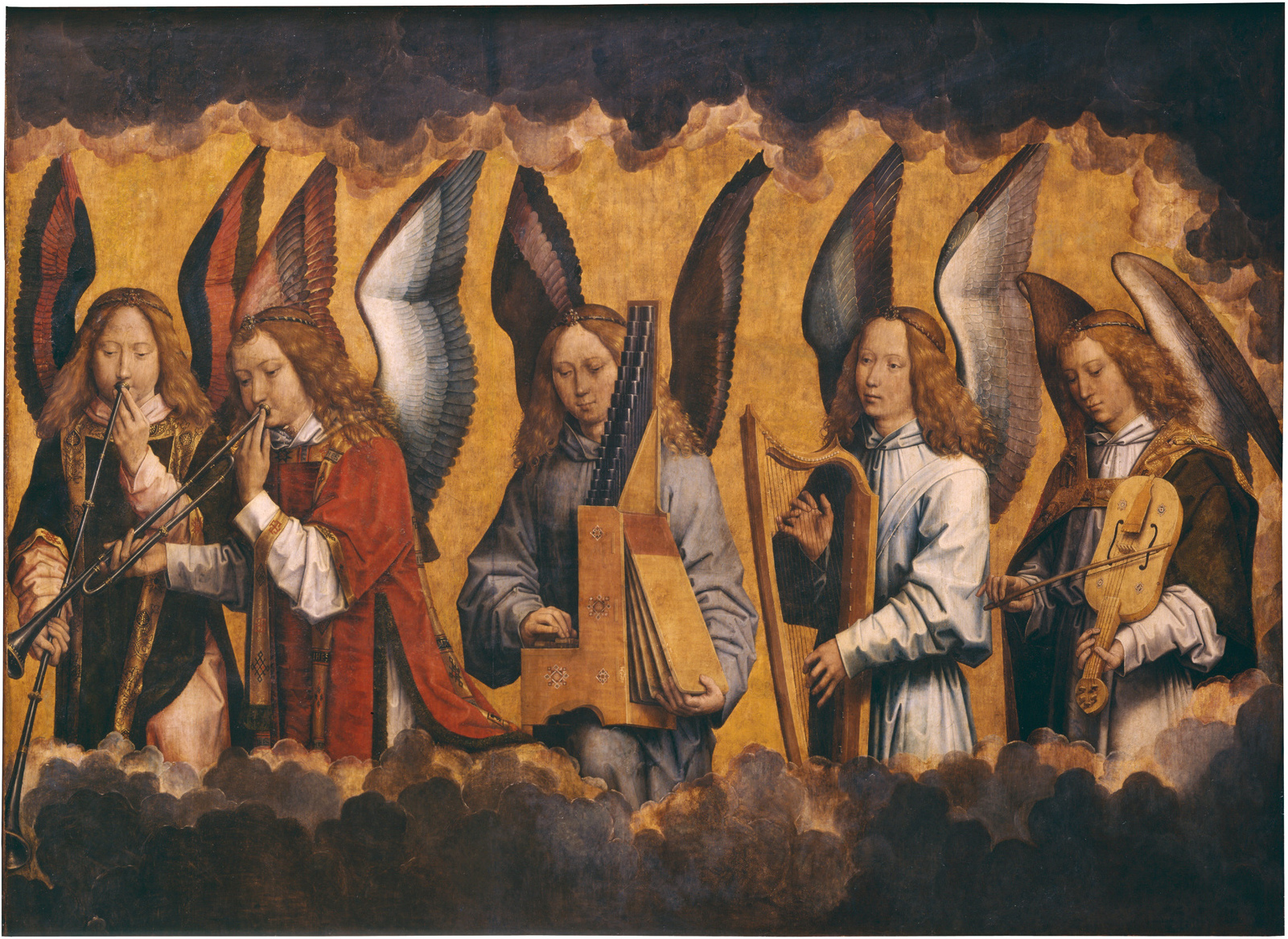 The right panel of the tryptich Christ with Singing and Music-Making Angels. Situation before the 2001-2017 restoration.